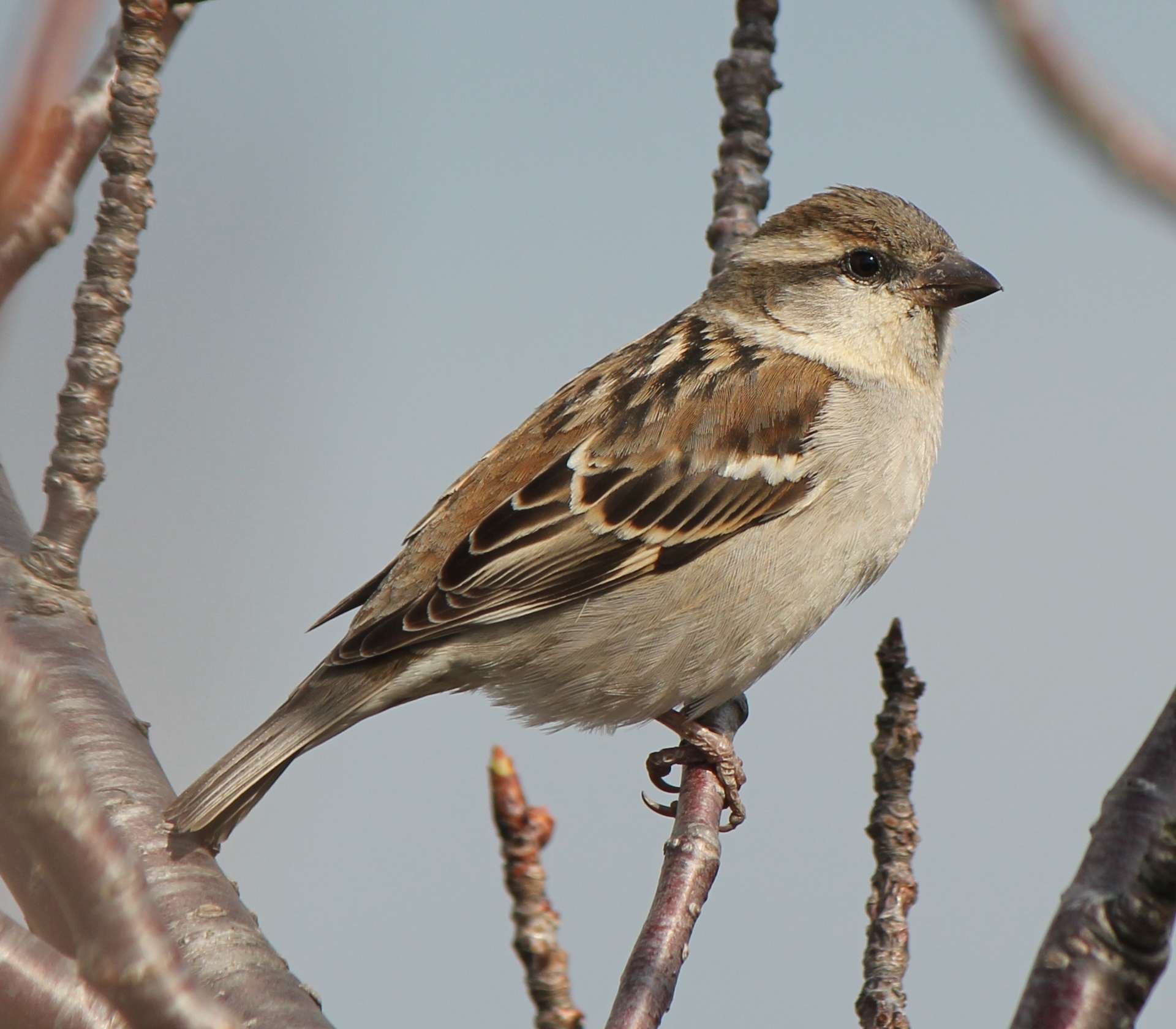 Russet Sparrow(Passer rutilans), female on tree, in Aichi prefecture, Japan.